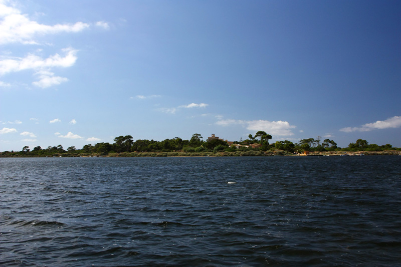 Mothia island